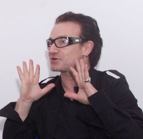 Paul David Hewson (Bono) talking to canadian finance minister Paul Martin 2000 in Prague (cropped)